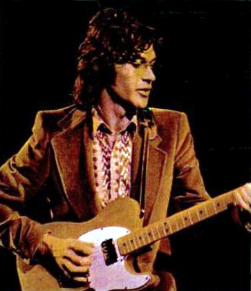 Trade ad for The Band's album Rock Of Ages. To better adapt it to his respective Wikipedia article, the ad was cropped and cleaned in a graphics editing program. The original can be viewed at the source below.